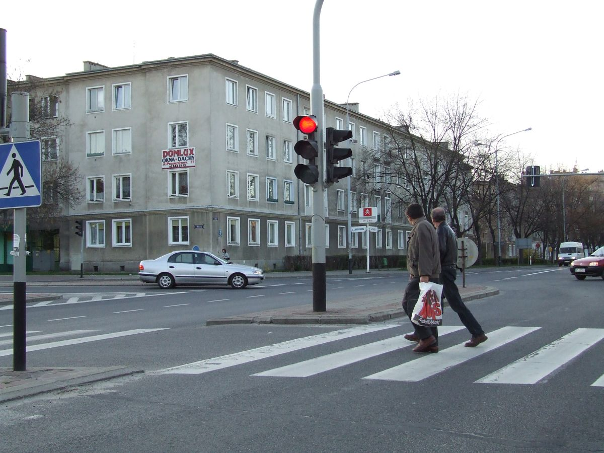 Streets of Stalowa Wola, Poland